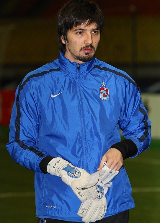 Tolga Zengin of Trabzonspor